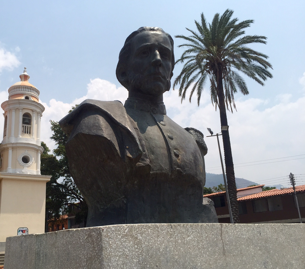 Busto de Vicente Campo Elías Plaza Montalbán de Ejido.